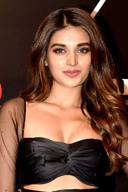 Nidhhi Agerwal grace the GQ Best Dressed Awards 2018.